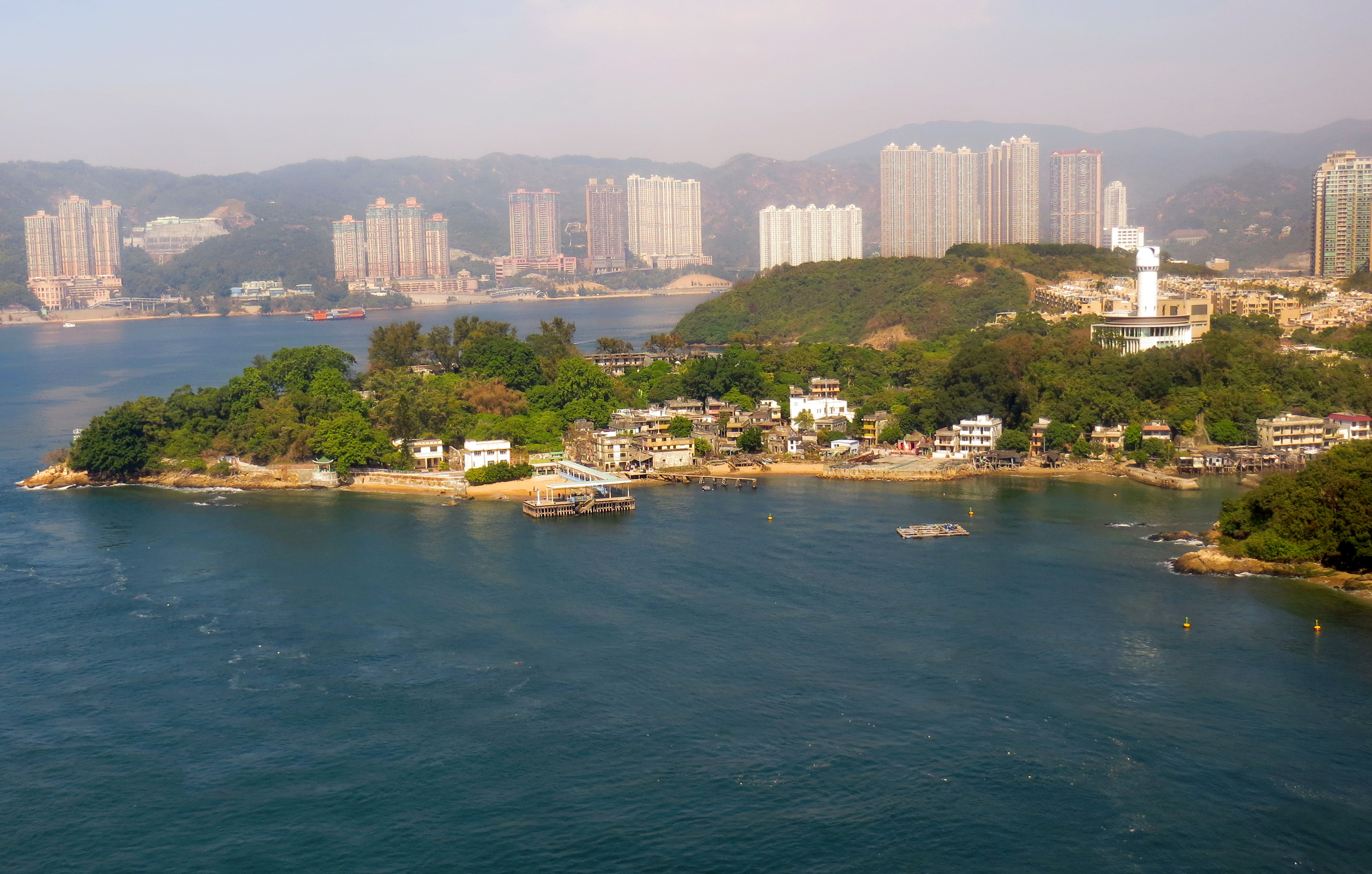 Man Wan Public Pier and surrounding area, Ma Wan, Hong Kong.